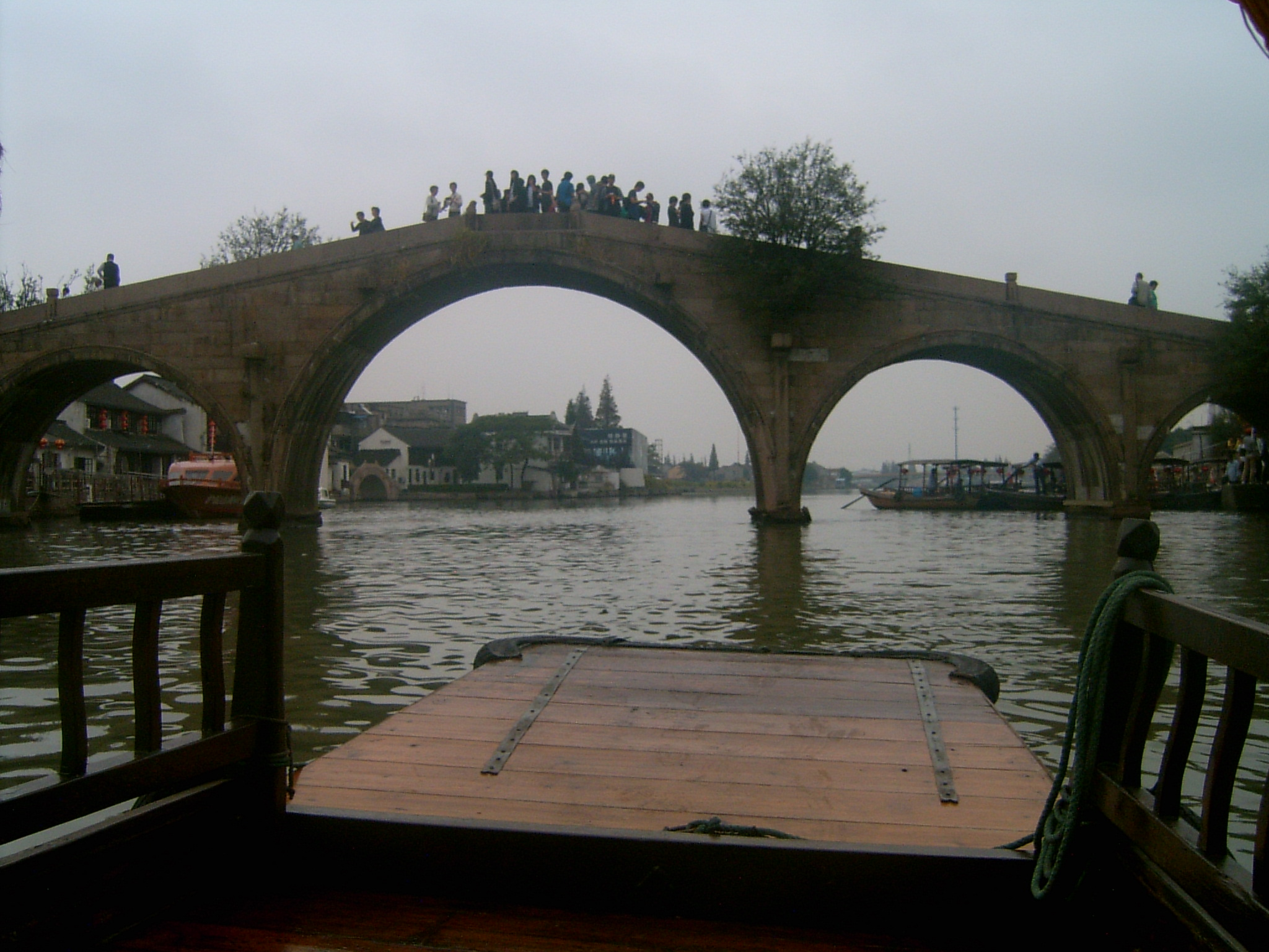 Viewing Fangshengqiao(放生桥) of Zhujiajiao(朱家角) on boat.